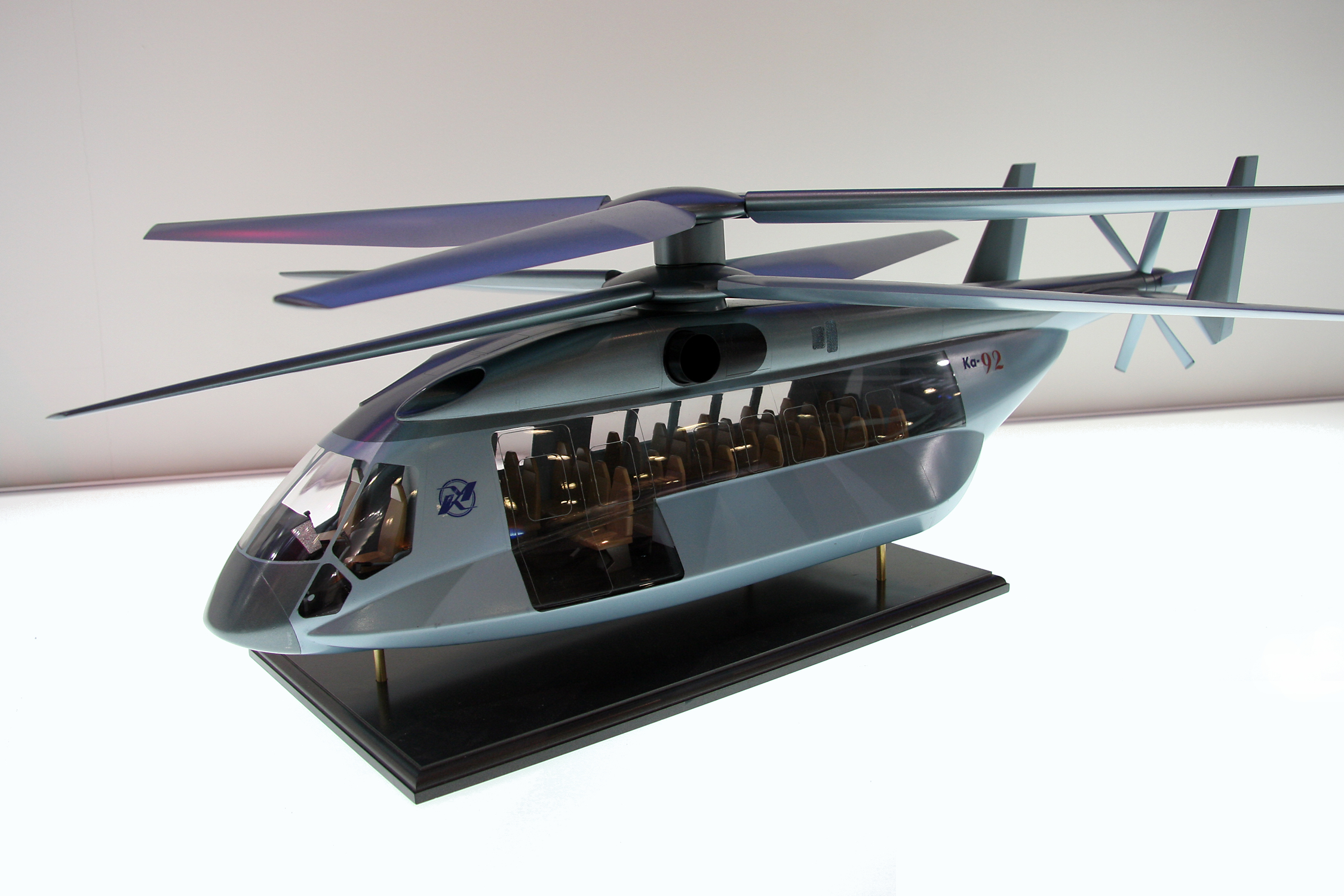 Model of Kamov Ka-92 helicopter at HeliRussia 2009 exhibition